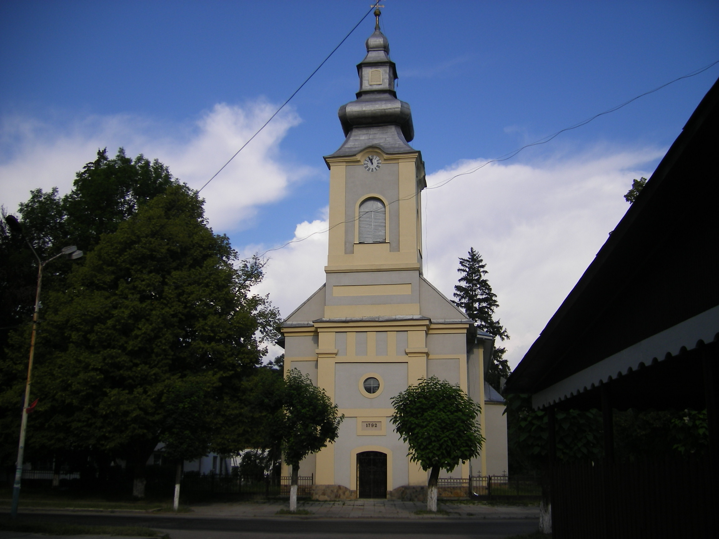 Velikiy Berezniy, Catholic church